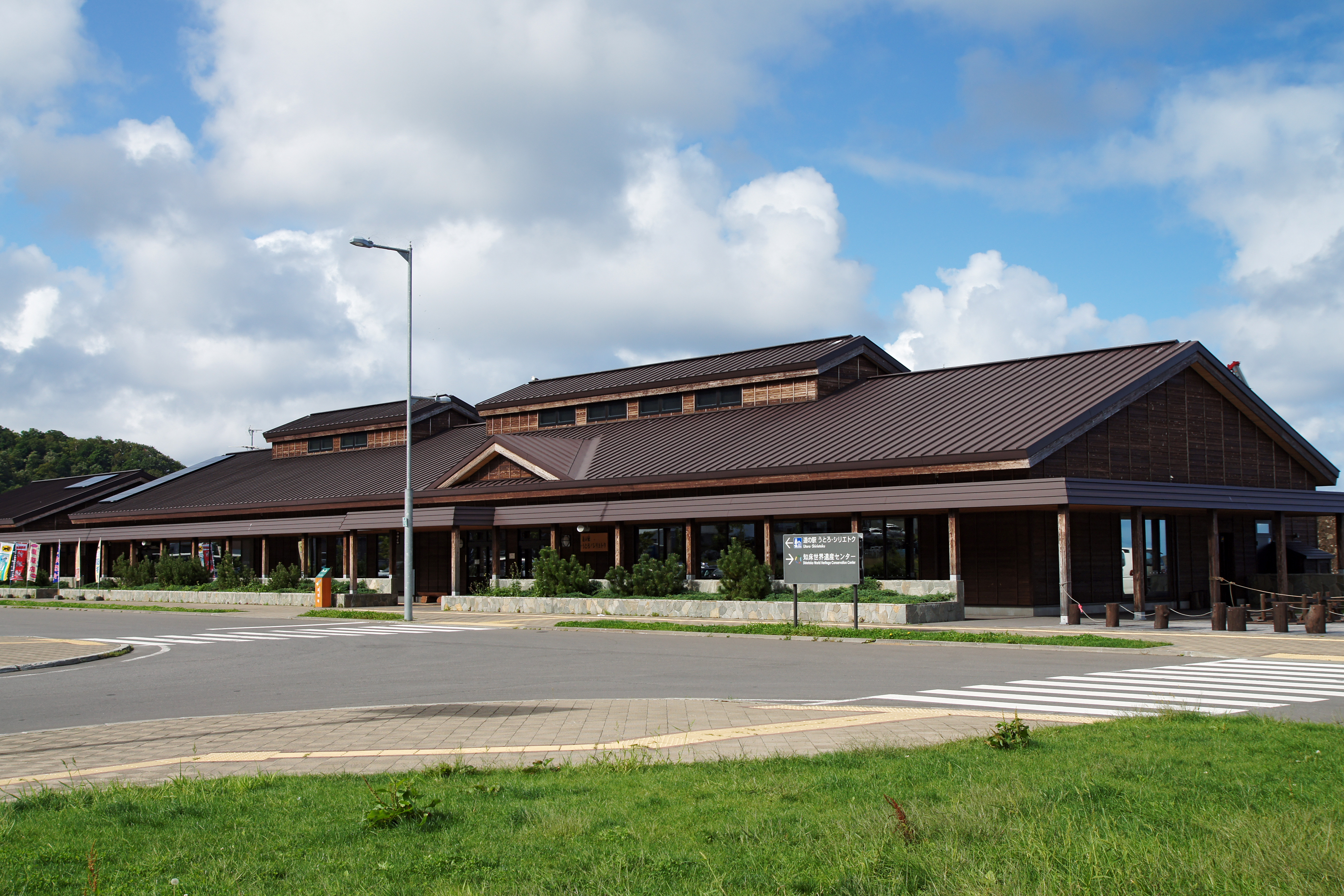 Michinoeki_Utoro_sir-etok in Shari, Hokkaido prefecture, Japan